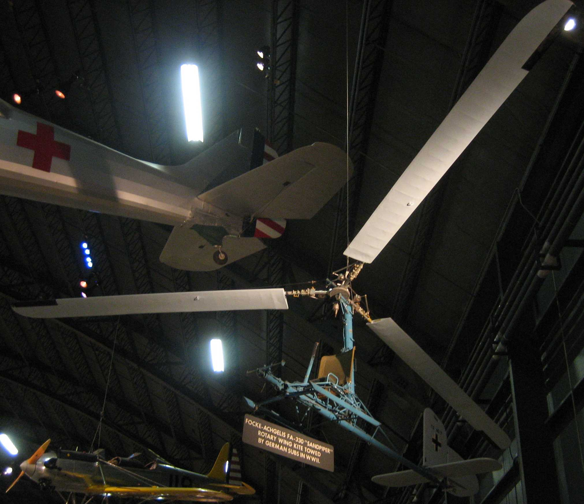 The Focke Achgelis Fa-330 autogyro, as photographed at the National Museum of the United States Air Force.